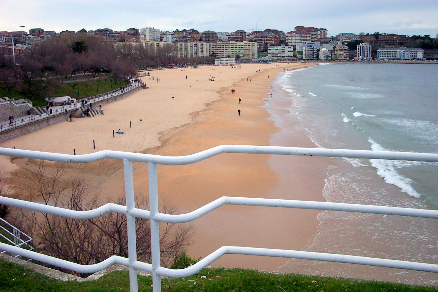 City of Santander. Playa del Sardinero.